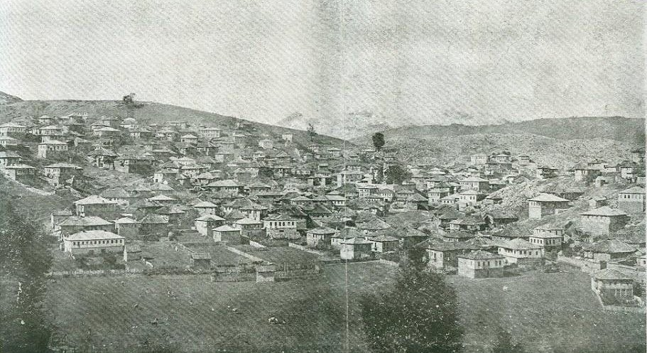 Lazaropole, Republic of Macedonia, 1861